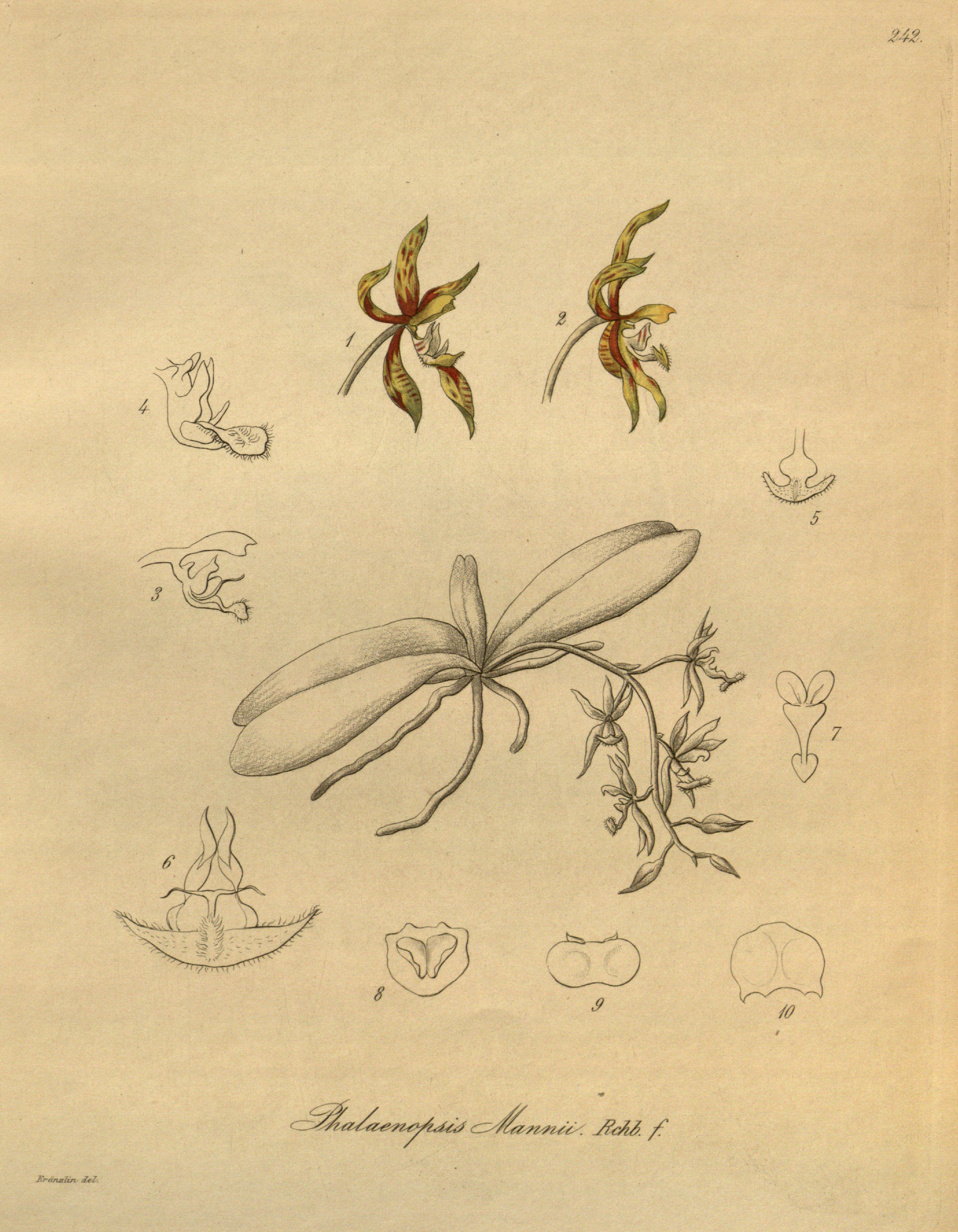 Illustration of Phalaenopsis mannii